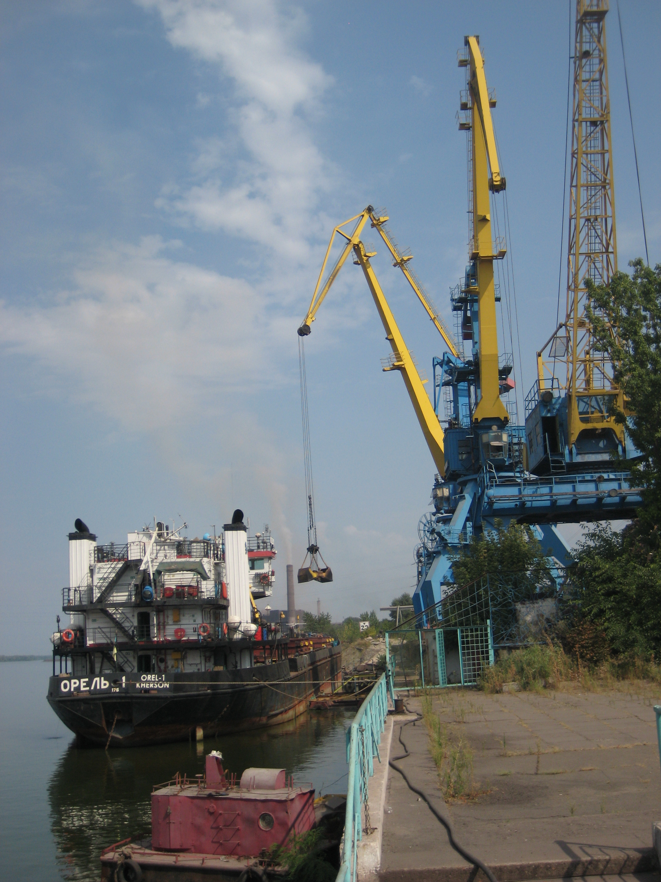 Port crane in Dniprodzerzhynsk